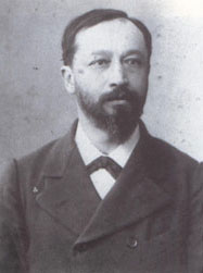 Portrait of French poet Gustave Kahn (1859-1936).